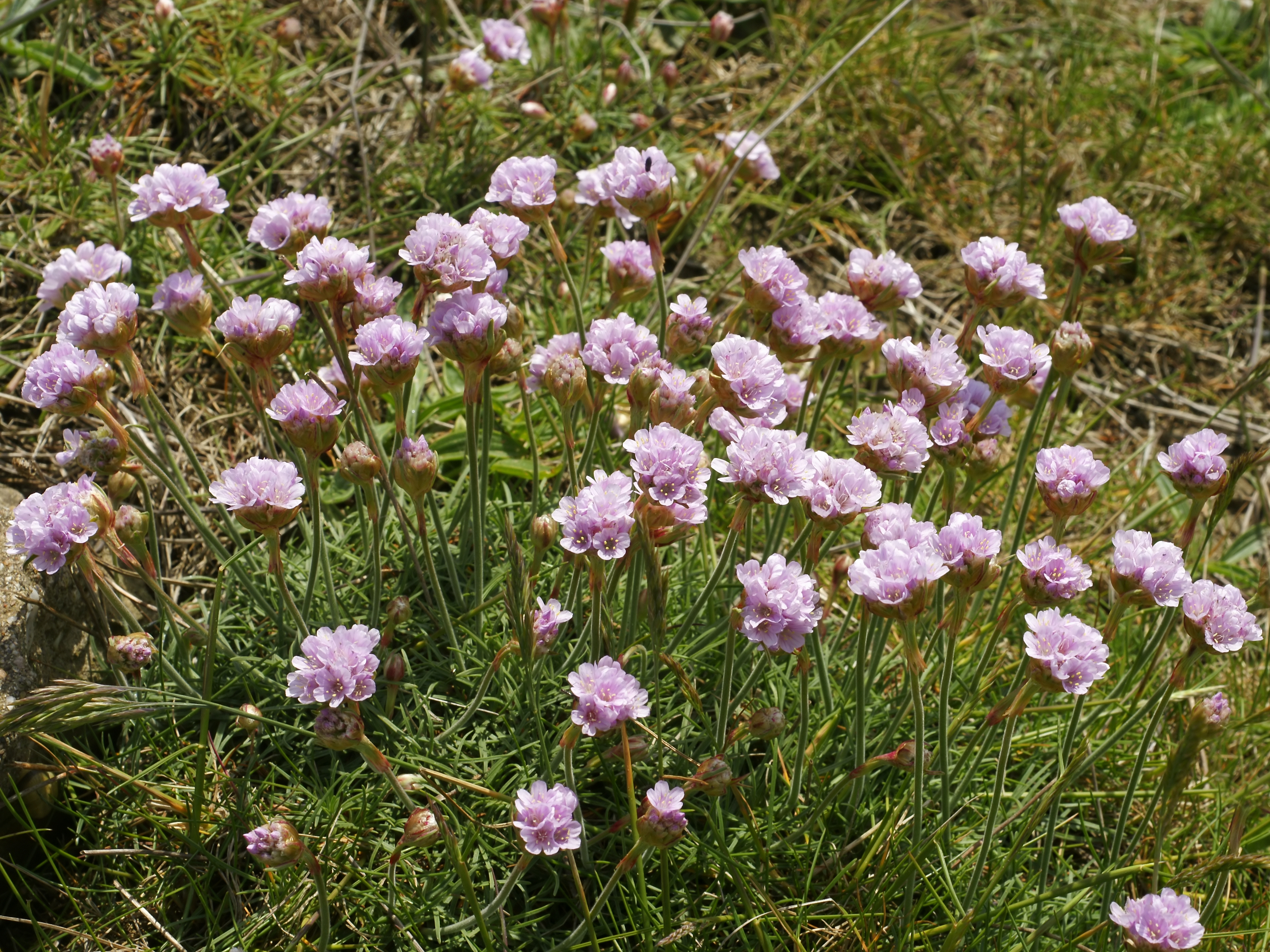 Thrift seapink at Boulogne sur Mer, France